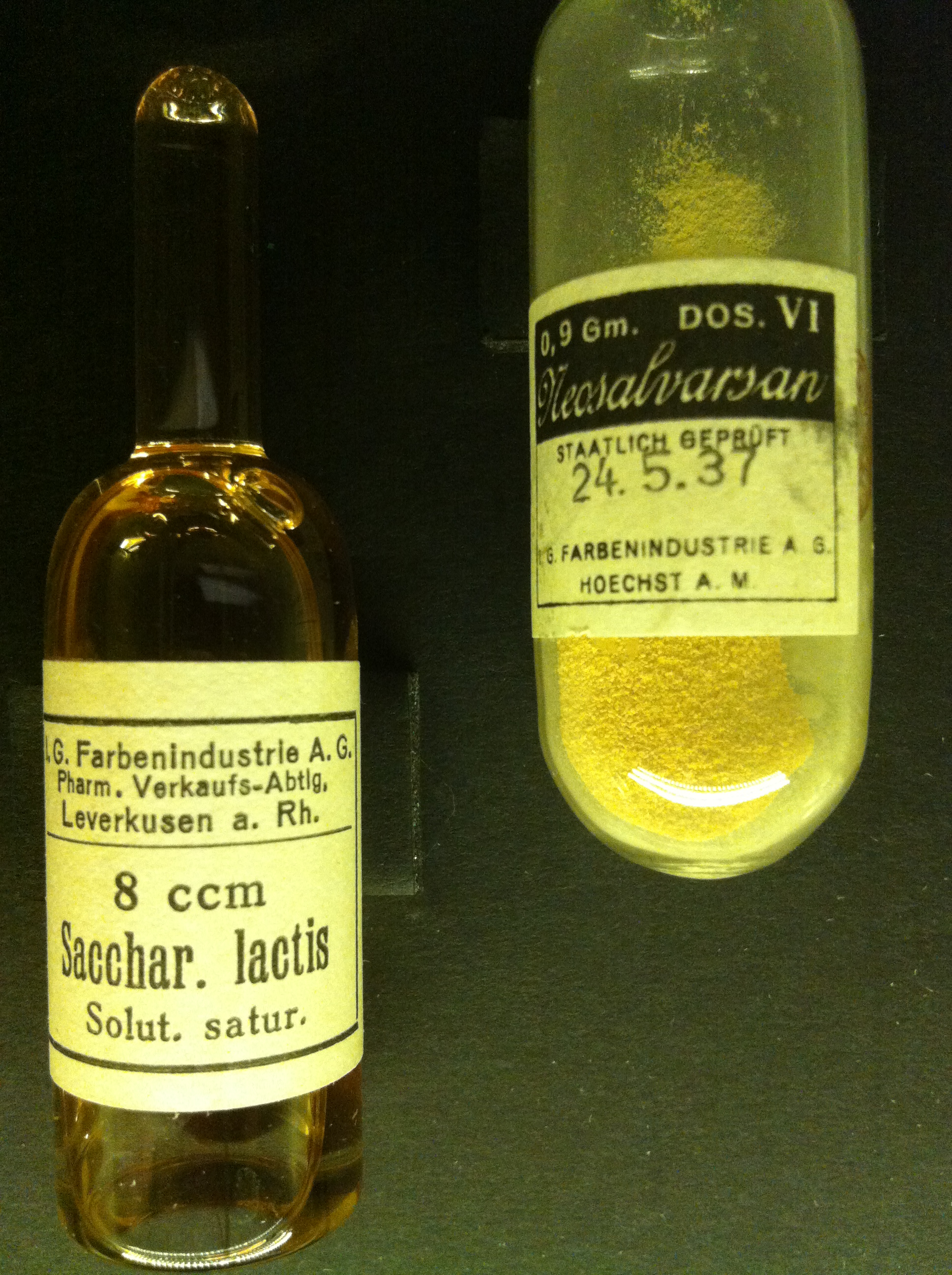 Pictures of an exhibit about The Paral·lel avenue in Barcelona that took place in CCCB cultural center between october 2012 and feb 2013. El Paral·lel emerges from the project to extend the city designed by Ildefons Cerdà. From its birth, a series of contradictory urban planning regulations facilitated the appearance of ephemeral buildings and the conversion of this street into a dense area of leisure and entertainment. The result was a leisure district for the masses, perfectly comparable to those existing in other major European urban agglomerations at that time, but that immediately became a genuine cultural expression of the social and political conflict that characterised the Barcelona of the early 20th century. El Paral·lel generated shows with perfectly differentiated contents and formats, made up by the audience and the artists. This exhibition will explain, therefore, why a new entertainment area emerged in the city, leading the weight of the theatrical axis to move from the Plaça Catalunya-Passeig de Gràcia area to the Nou de la Rambla-Paral·lel area.